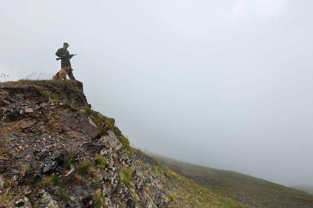 “Border Service at Russian-Georgian border”. A border guard at the Russian-Georgian border.